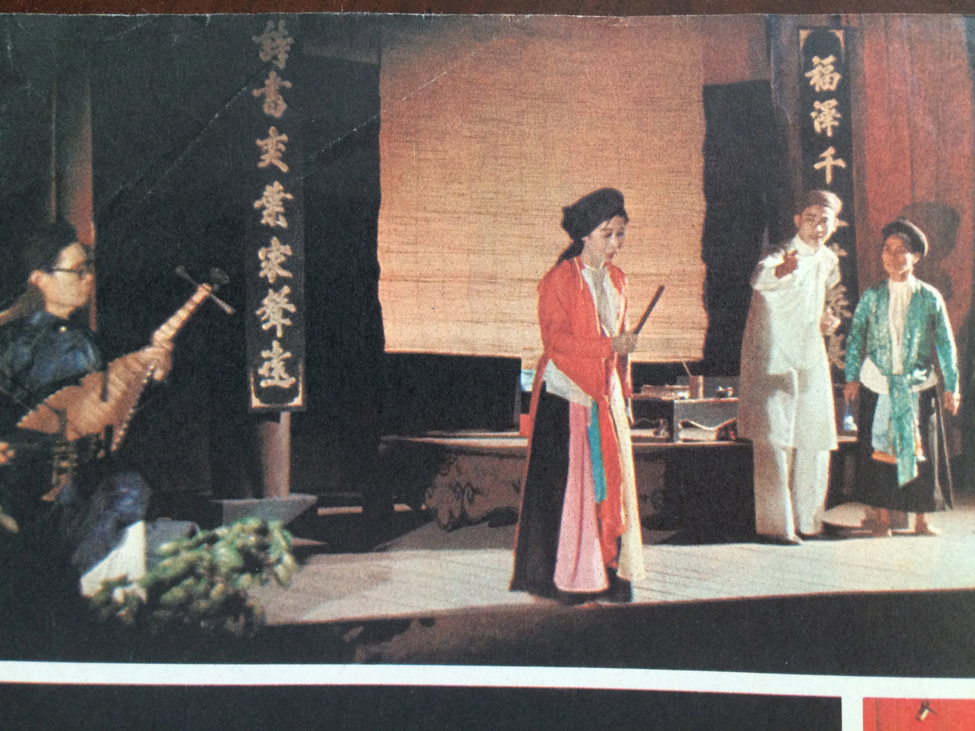 Scene from Vu-Khac-Khoan's play "Quan-am Thi-Kinh" cheo theater